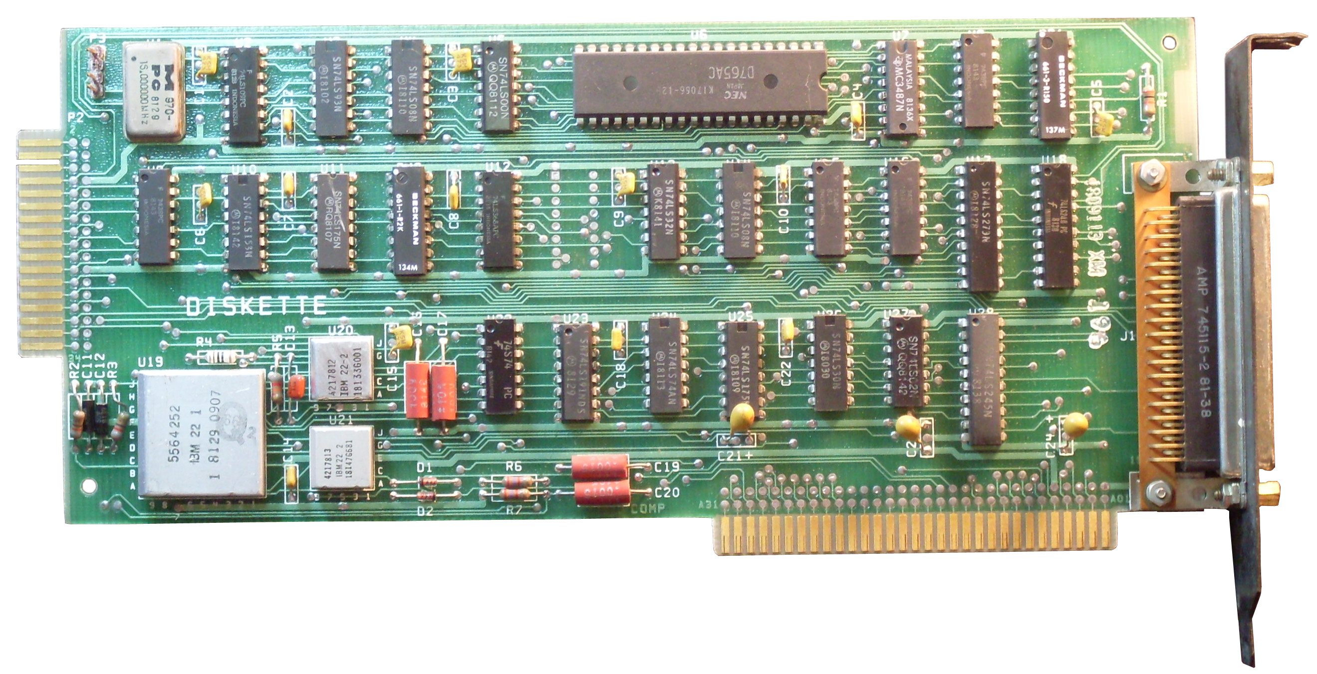 Original 5 1/4 Diskette Drive Adapter found on the IBM PC (IBM 5150)